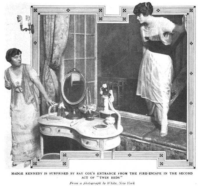 Scene from second act of 1914 play Twin Beds, with Madge Kennedy and Ray Cox, appearing in Munsey's Magazine, July 1915, p. 291.